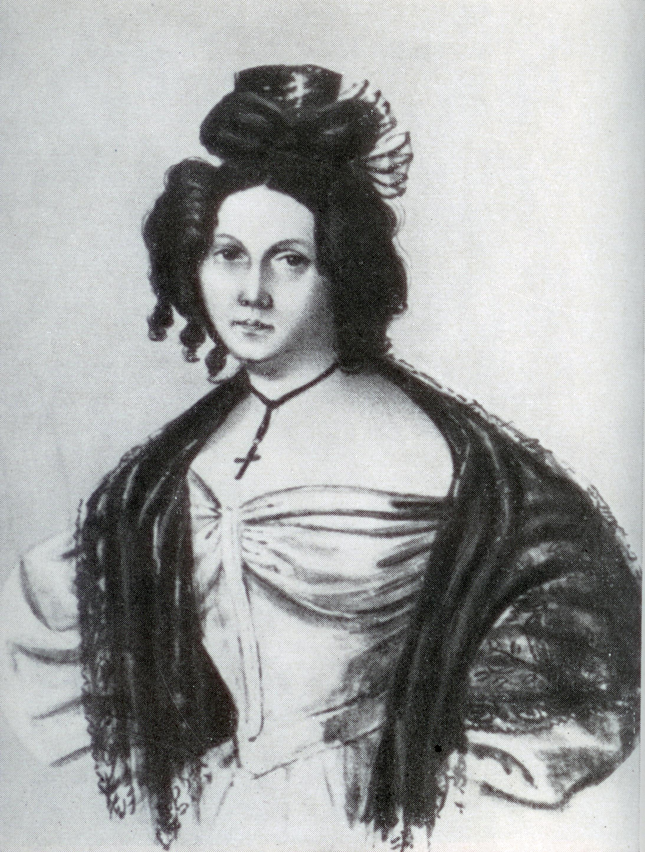 Polina Annenkova (1800-1876)